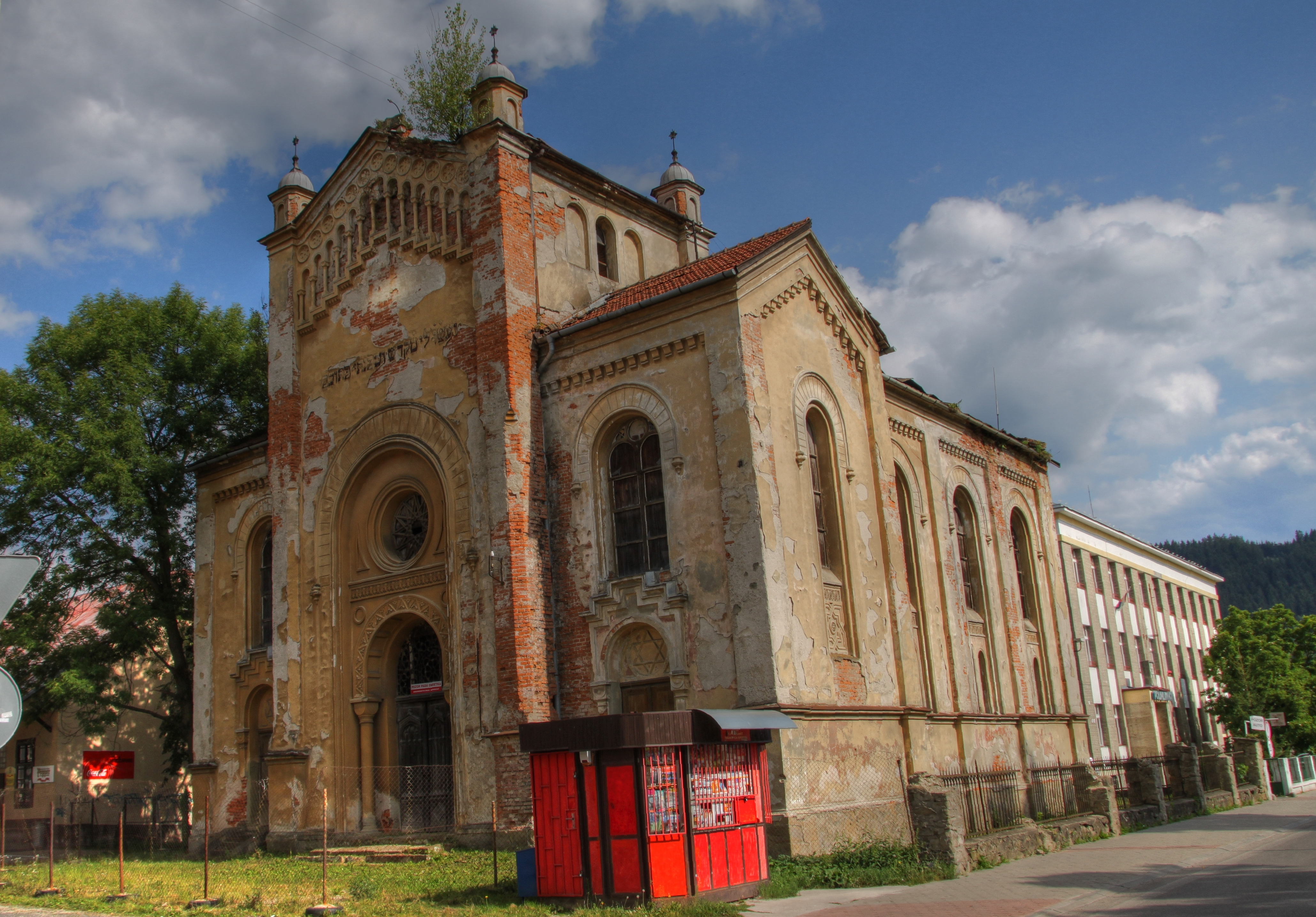 The Synagogue of Bytča, built in 1886. Slovakia.